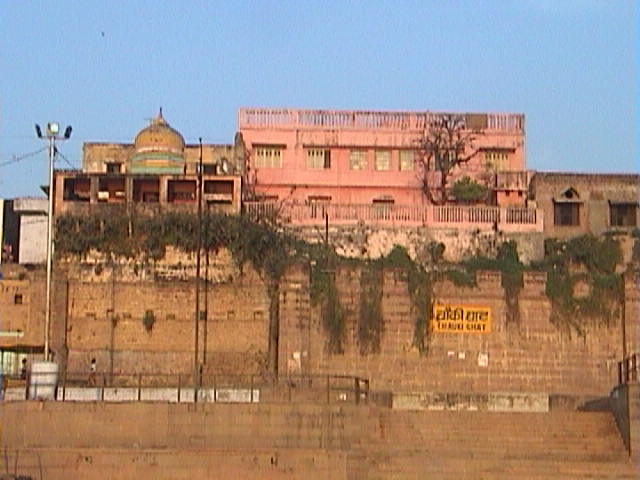 Hindu culture, have attributed supreme importance to the preservation of tradition Classical civilizations, and especially the Indian one, have attributed supreme importance to the preservation of tradition. Its central idea was that social institutions, scientific knowledge and technological applications need to use "heritage" as a "resource". Using contemporary language, we would say that ancient Indians considered, as social resources, both economic assets (like natural resources and their exploitation structure) and factors promoting social integration (like institutions for preserving knowledge and maintaining civil order). Ethics considered that what had been inherited should not be consumed, but should be handed over, possibly enriched, to successive generations. This was a moral imperative for all, except in the final life stage of sannyasa